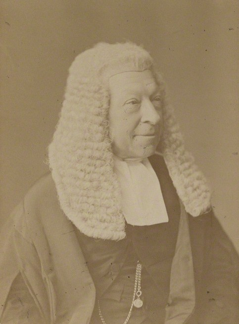 Portrait of John Peter De Gex (1809–1887), English barrister.